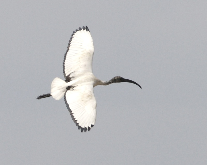 Sacred ibis - in flight from above Threskiornis aethiopicus ssp Threskiornis aethiopicus aethiopicus Masai Mara, Kenya August 29, 2008 690V2022